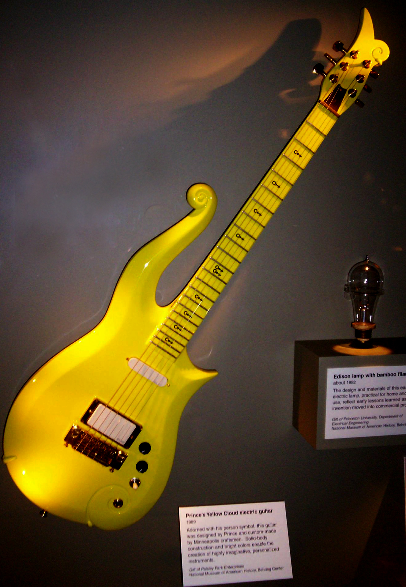 Prince's guitar displayed at the Smithsonian